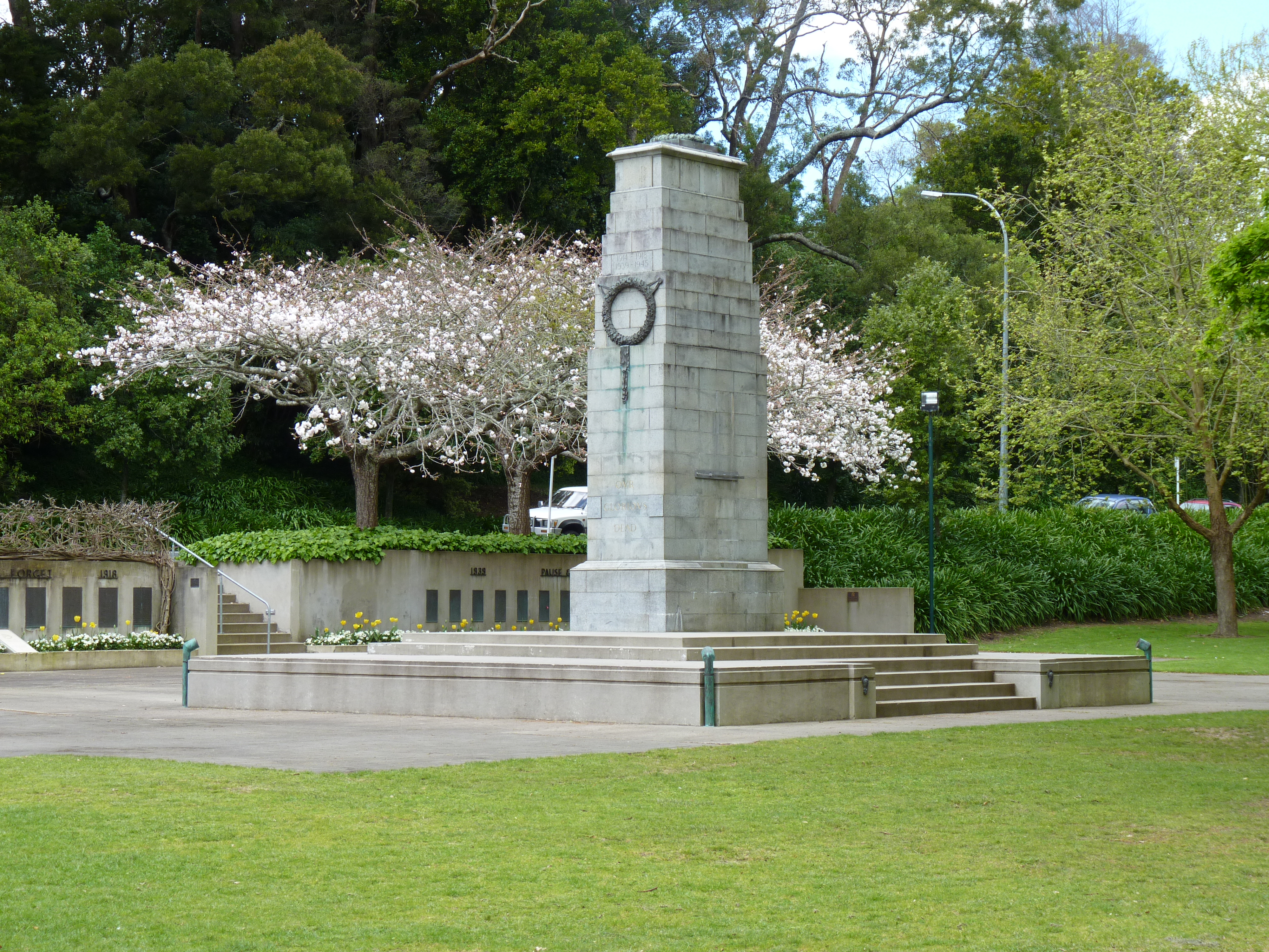 Cenotaph at Memorial Park, Hamilton East, Hamilton.